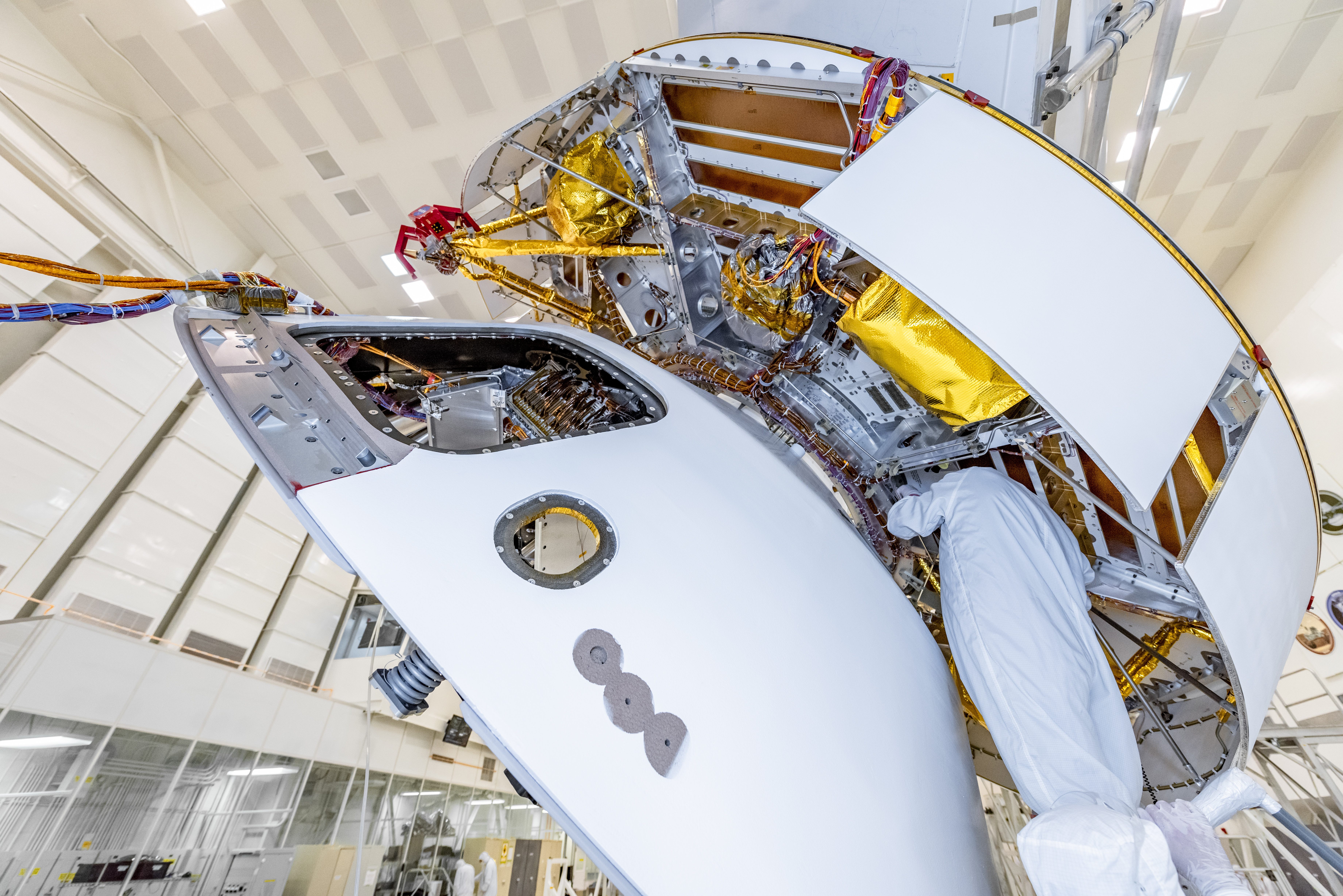 A member of NASA's Mars 2020 project checks connections between the spacecraft's back shell and cruise stage. The image was taken on March 26, 2019, in the Spacecraft Assembly Facility's High Bay 1 clean room at NASA's Jet Propulsion Laboratory, in Pasadena, California. During the mission's voyage to Mars, the cruise stage houses the hardware that steers and provides power to the spacecraft. The back shell, along with the heatshield (not pictured), protects the 2020 rover and the sky crane landing system during Mars atmospheric entry. M2020 ATLO CS-BPDV Configuration Requester: David Gruel Photographer: Geregory M. Waigand Date: 2019-03-26 Photolab order: 070915-171696